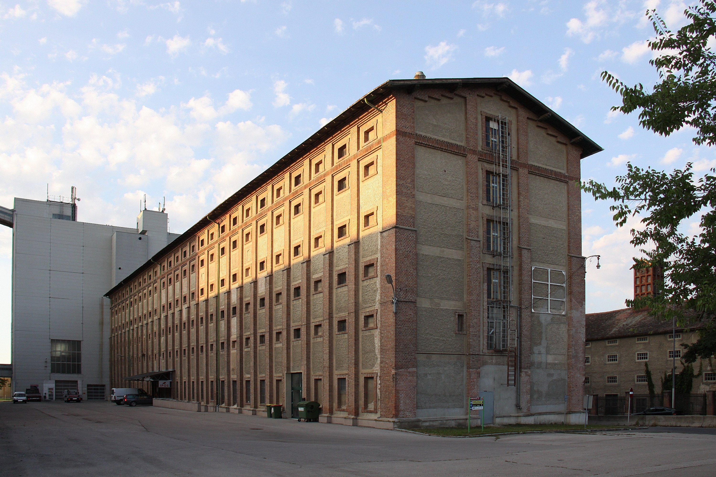 Former sugar refinery - Siegendorf. Object location47° 46′ 09.46″ N, 16° 31′ 47.67″ E